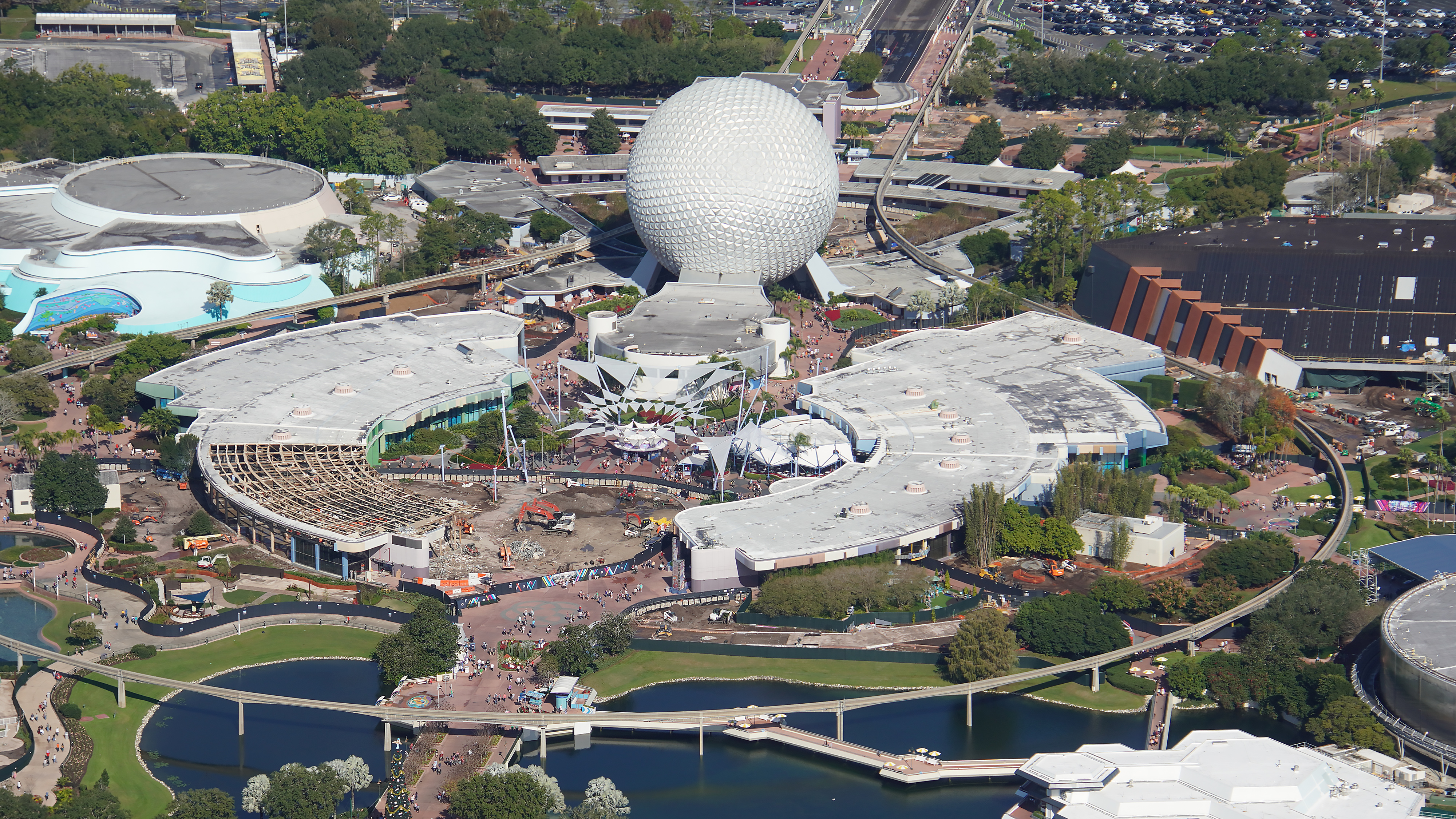 Innoventions West is being demolished in phases. This aerial view Dec 14, 2019 shows the southern portion reduced to structural frame. Nearby Fountain of Nations also demolished several weeks earlier.